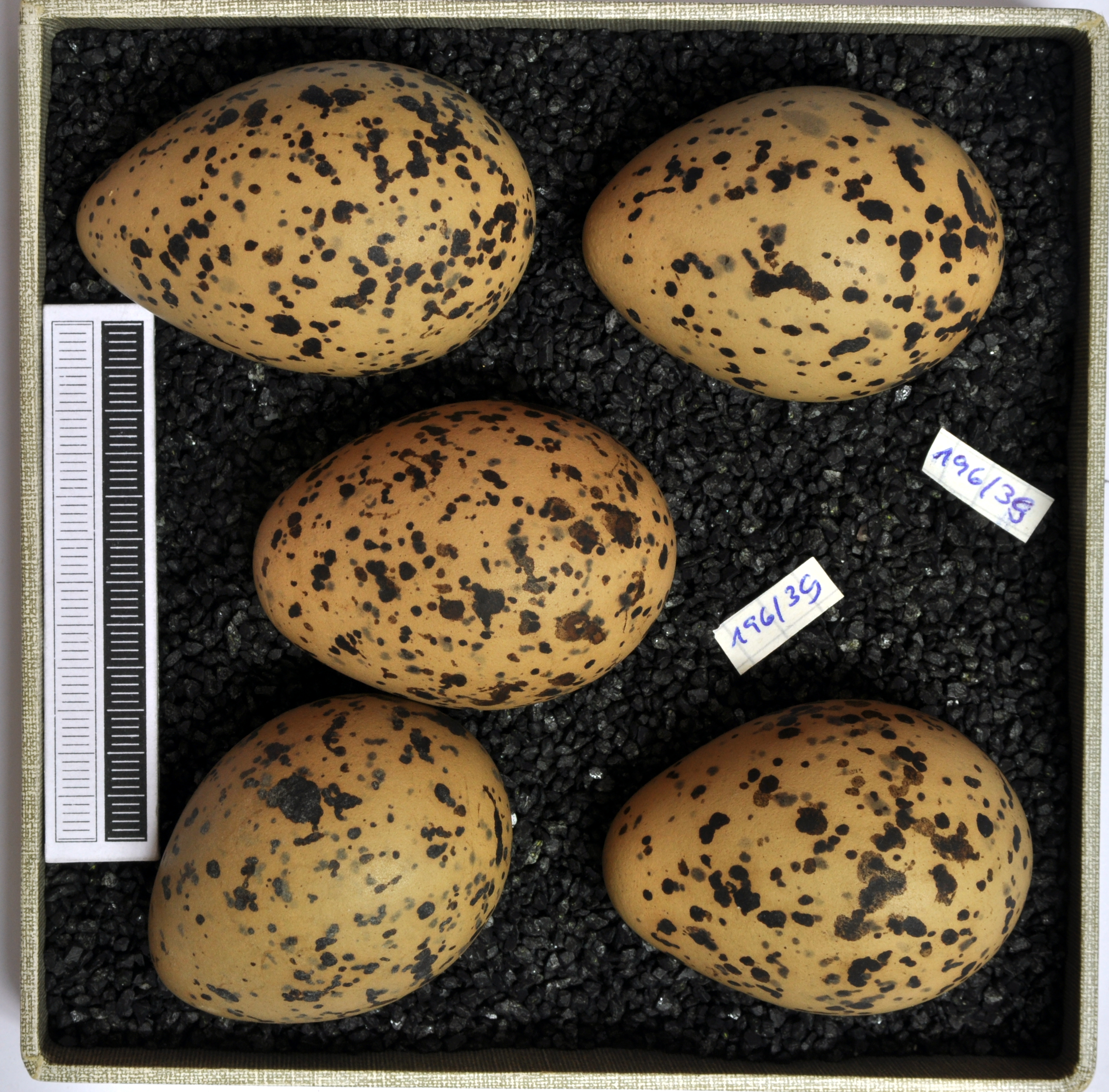 Pied avocet Recurvirostra avosetta, egg, Coll. Museum Wiesbaden, Origin: Provence, France, 17.04.1974, leg. W. Abelmann